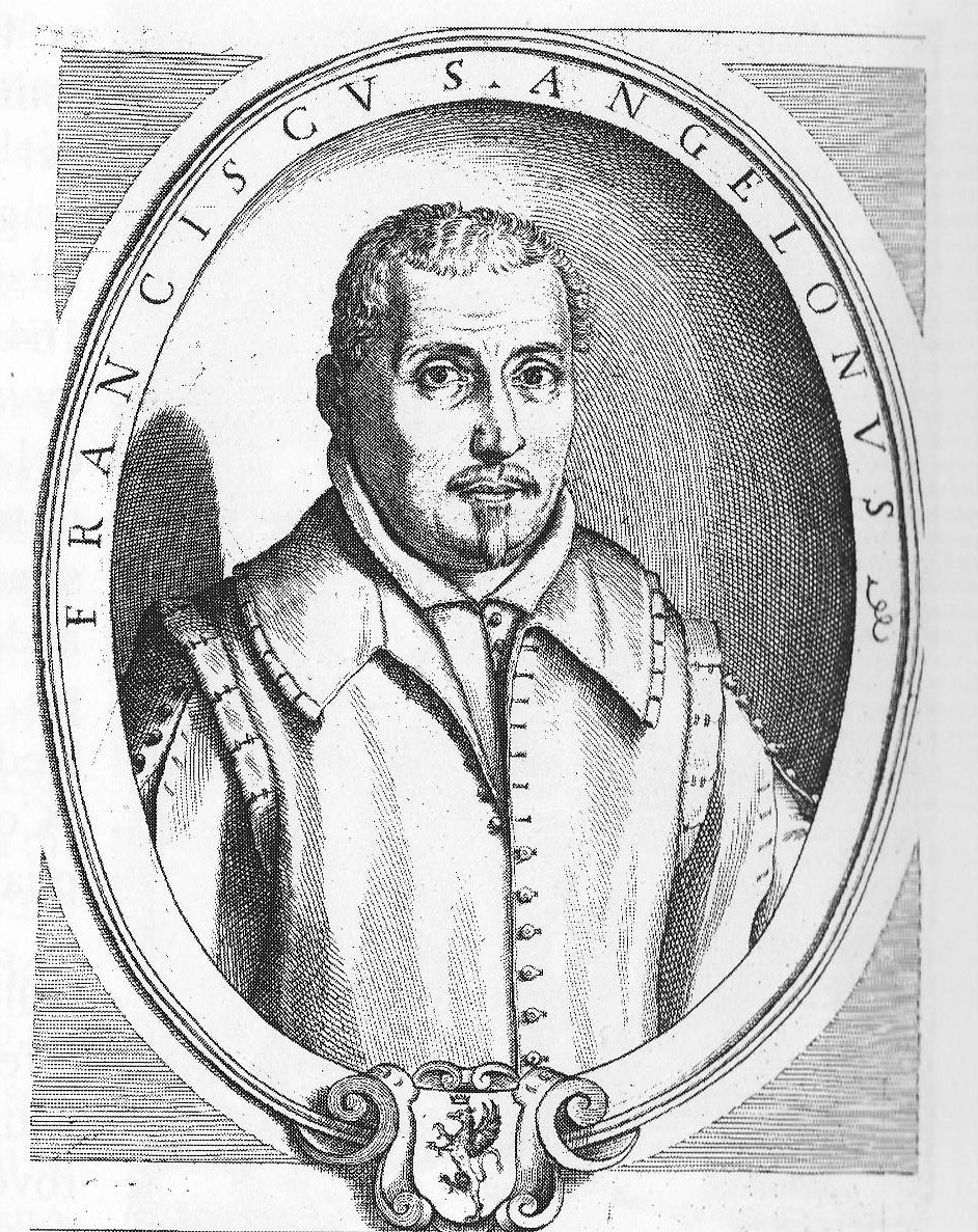 Portrait of Francesco Angeloni